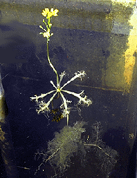 This could well be U. inflata but the website doesn't specify and the image is too poor to be sure. It could be any number of suspended or affixed aquatic species of Utricularia including Utricularia radiata.